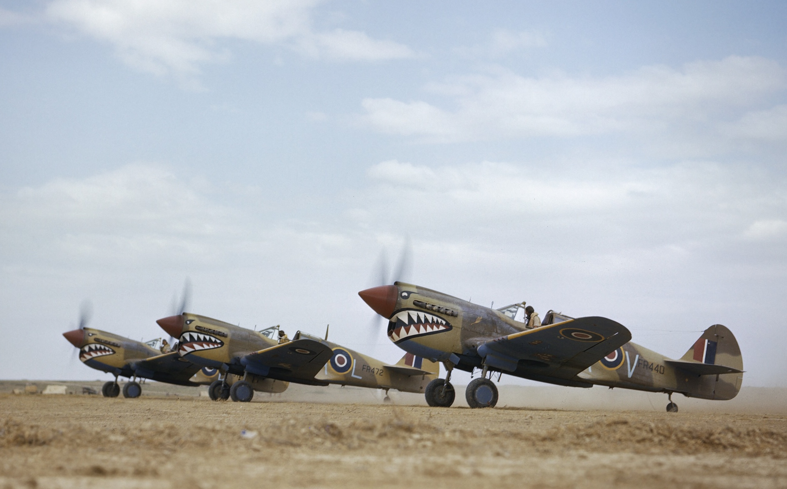 Three Curtiss Kittyhawk Mk.IIIs of No. 112 Squadron, Royal Air Force, preparing to depart from Medenine, Tunisia, on a sortie. The pilots of FR472 `GA-L' and FR440 `GA-V', are waiting for the section leader in the farthest aircraft to move out. All three Kittyhawks display the squadron's distinctive 'shark mouth' insignia.